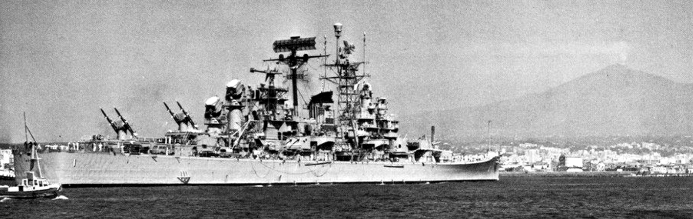 The U.S. Navy guided missile cruiser USS Boston (CAG-1) at Catania, Italy, in September 1964.